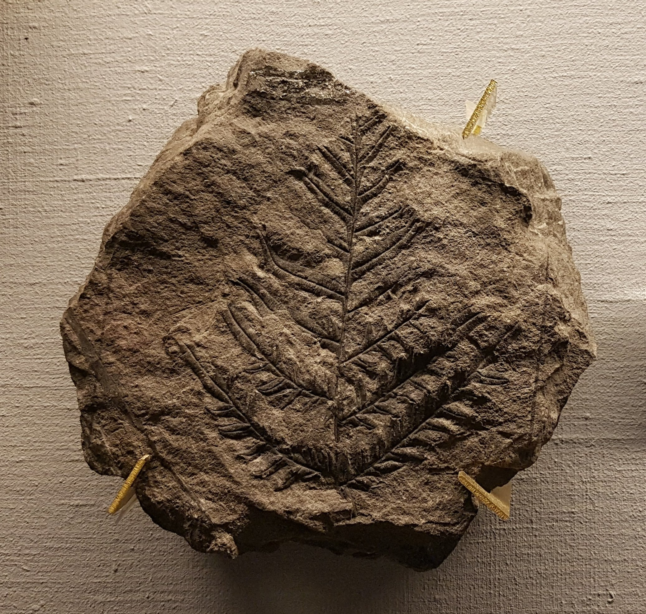 Pteridospermales. Specimen at Natural History Museum, Gothenburg.